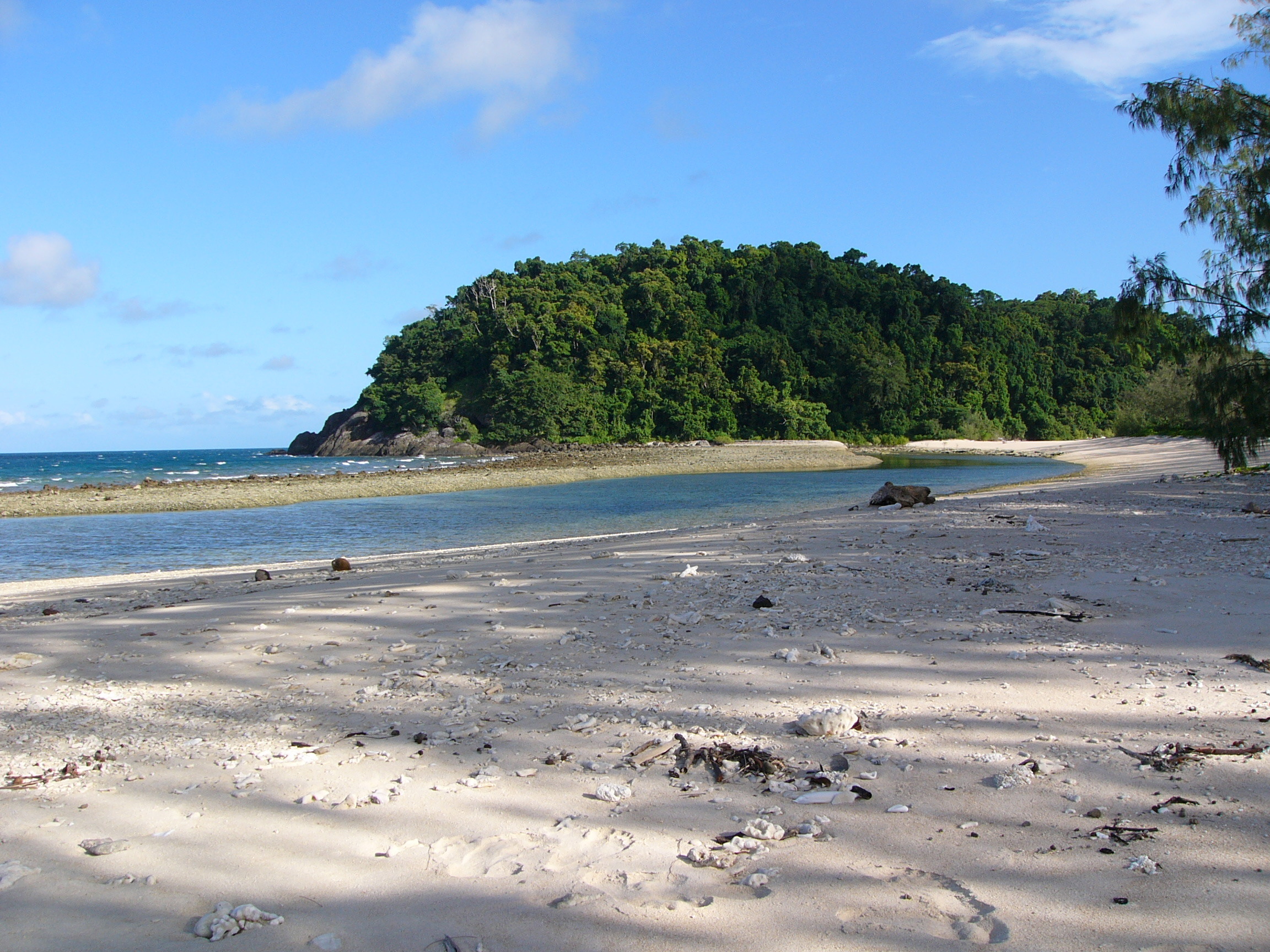 View on Russell Island facing southeast.